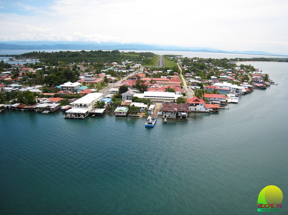 City of Isla Colon, Bocas del Toro.